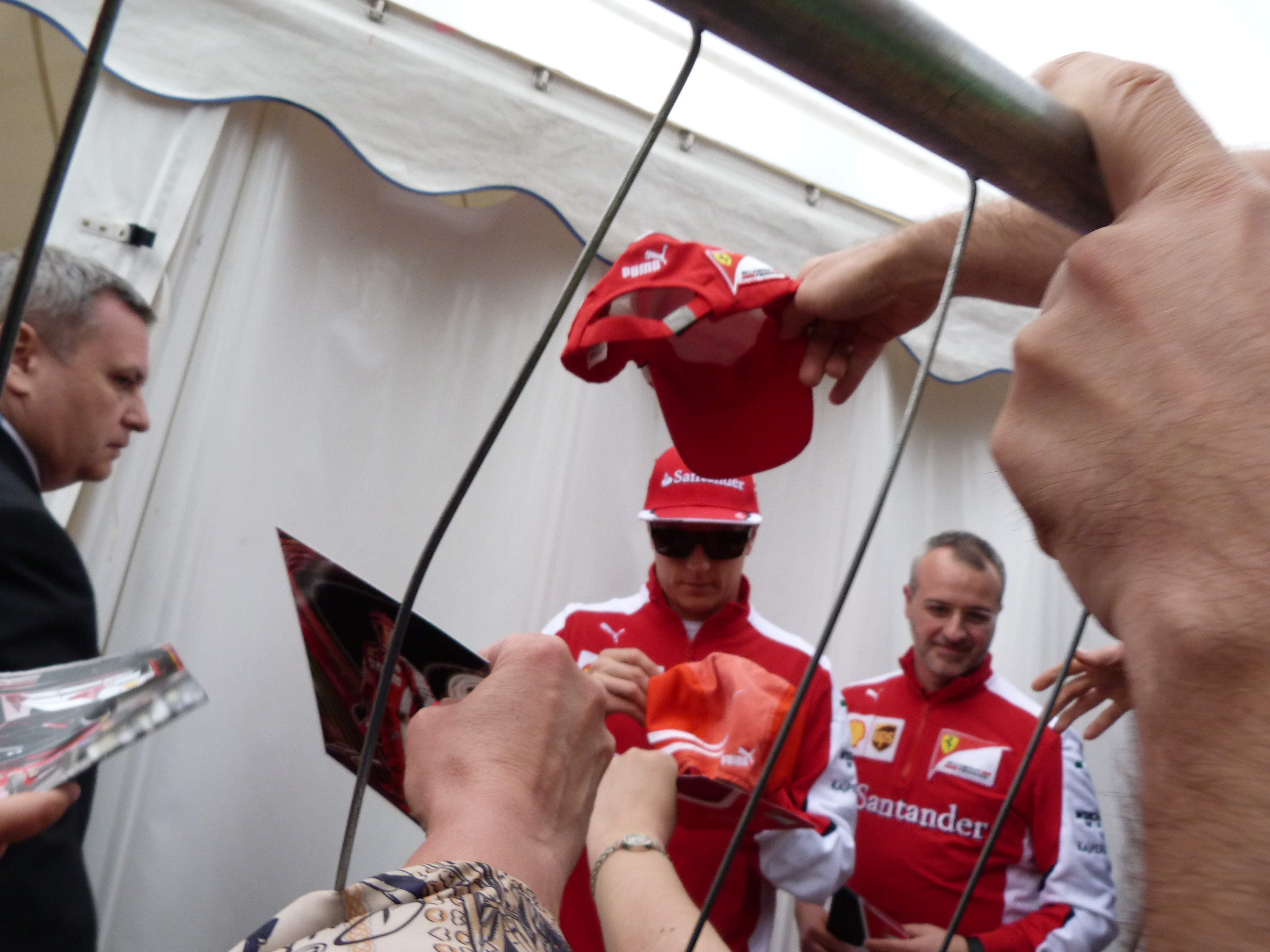 Live on the 1st of May, 2015. Budapest, Várkert Bazár. Nagy Futam. Kimi Räikkönen autogrammot ad. After the race, giving autographs to the fans. ©© Derzsi Elekes Andor, Budapest, 2015, Published in the Metapolisz DVD line. You are authorised to use this photo under Creative Commons – even for commercial, for profit purposes. The photo must be attributed to Derzsi Elekes Andor. All of the photos and vids in the Metapolisz DVD line are under Creative Commons and can be used even for commercial – for profit – purposes. Recommended Citation Derzsi Elekes Andor: Metapolisz DVD line